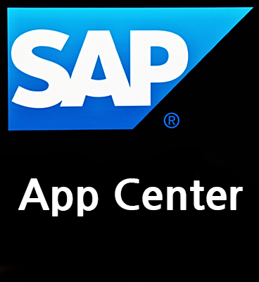 SAP App Center logo